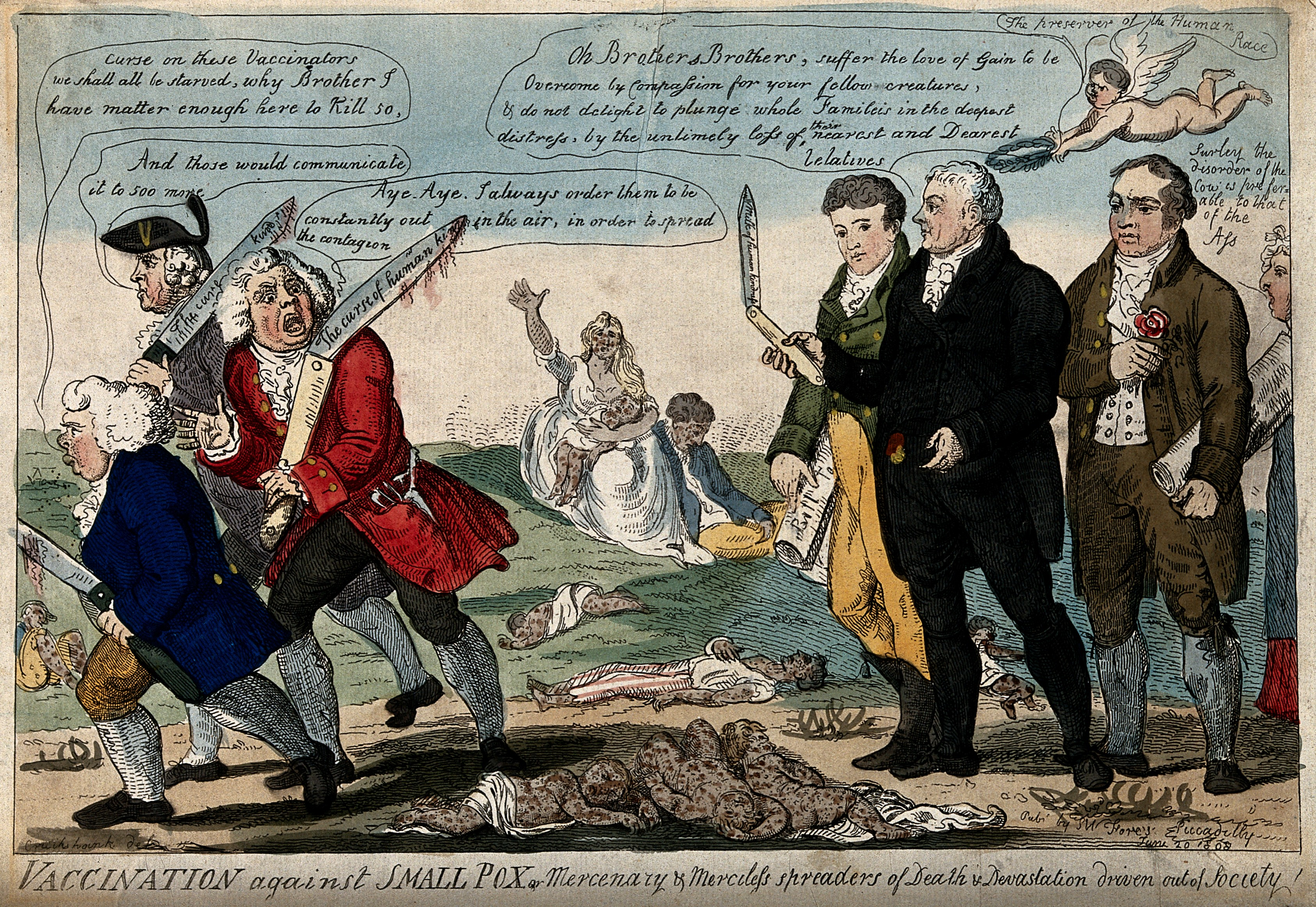 Jenner and his two colleagues seeing off three anti-vaccination opponents, the dead are littered at their feet. Coloured etching by I. Cruikshank, 1808. Iconographic Collections Keywords: cruikshank, isaac {1756?-1811?; Edward Jenner; Isaac Cruikshank; Thomas Dimsdale; George Rose; SATIRE